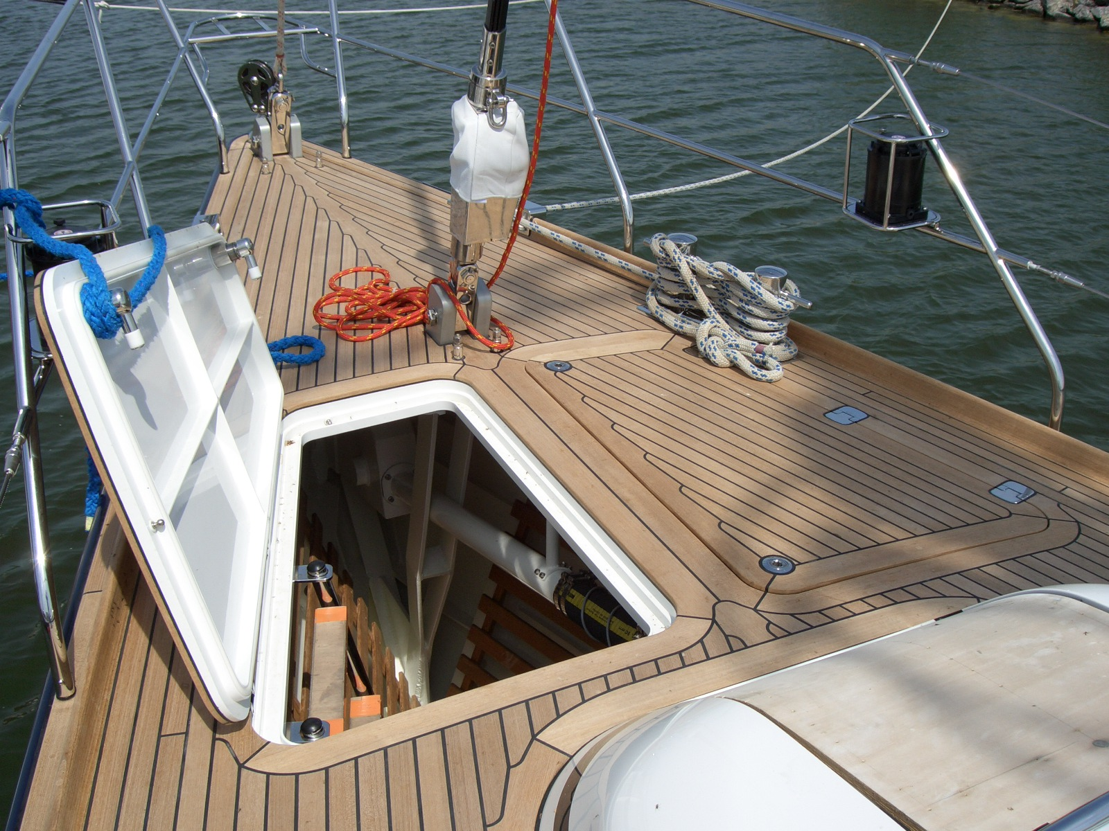 A Berth